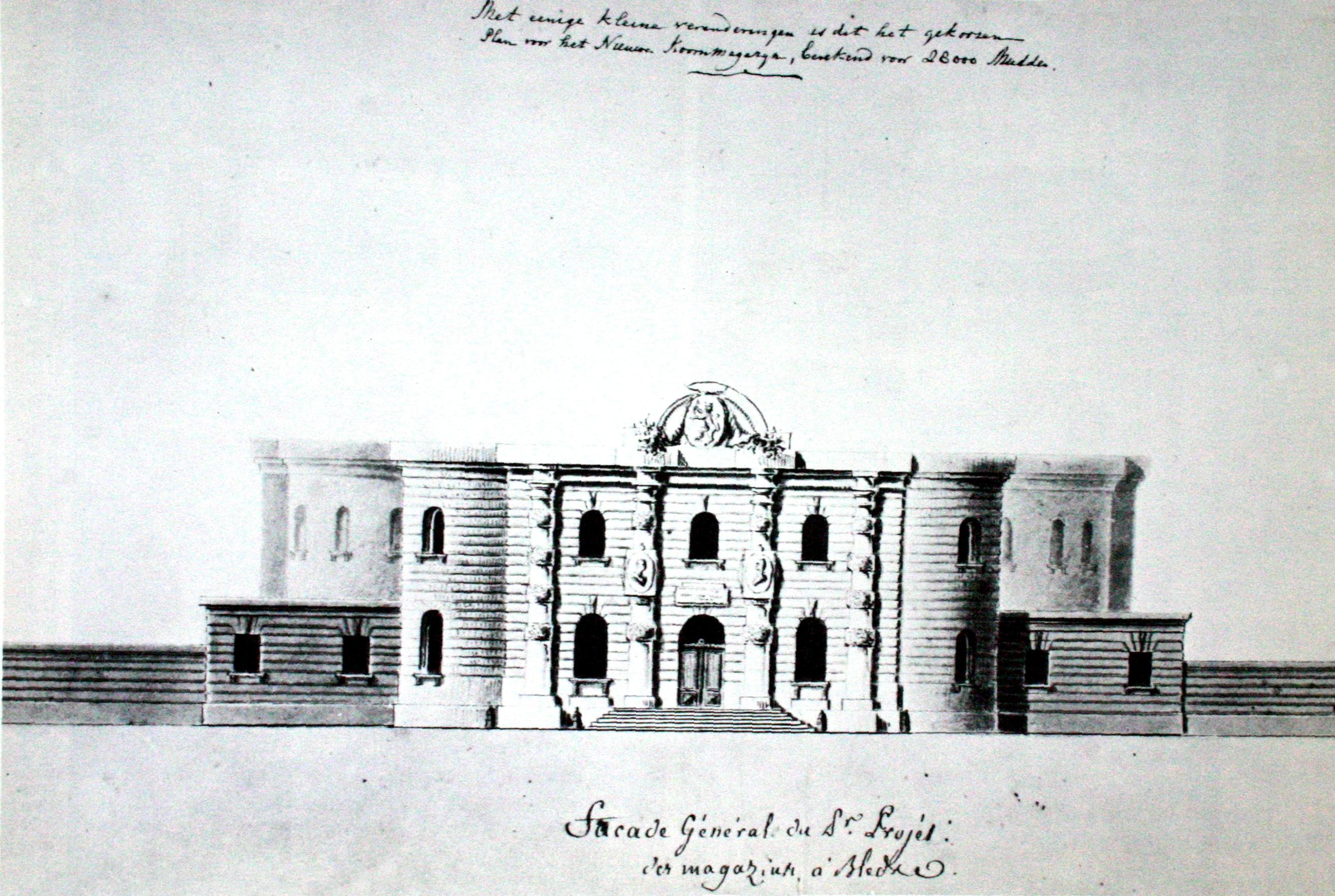 Plan of New Wheat Store, Cape Town